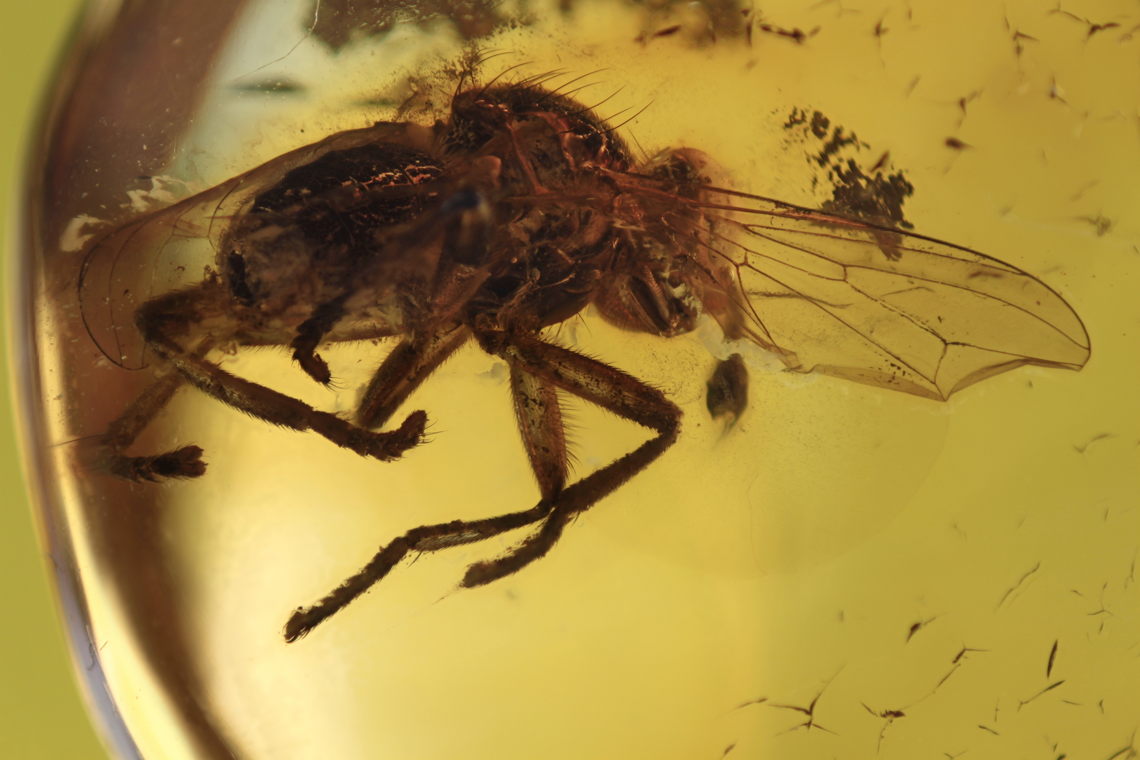 Palaeomyopa spp. (Conopidae, Diptera) in baltique amber discover in 1982